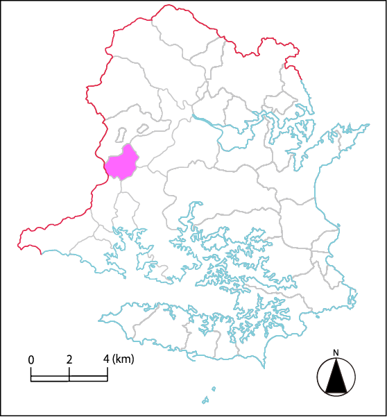 This is the map of Isobecho-Hiyama, Shima, Mie, Japan.